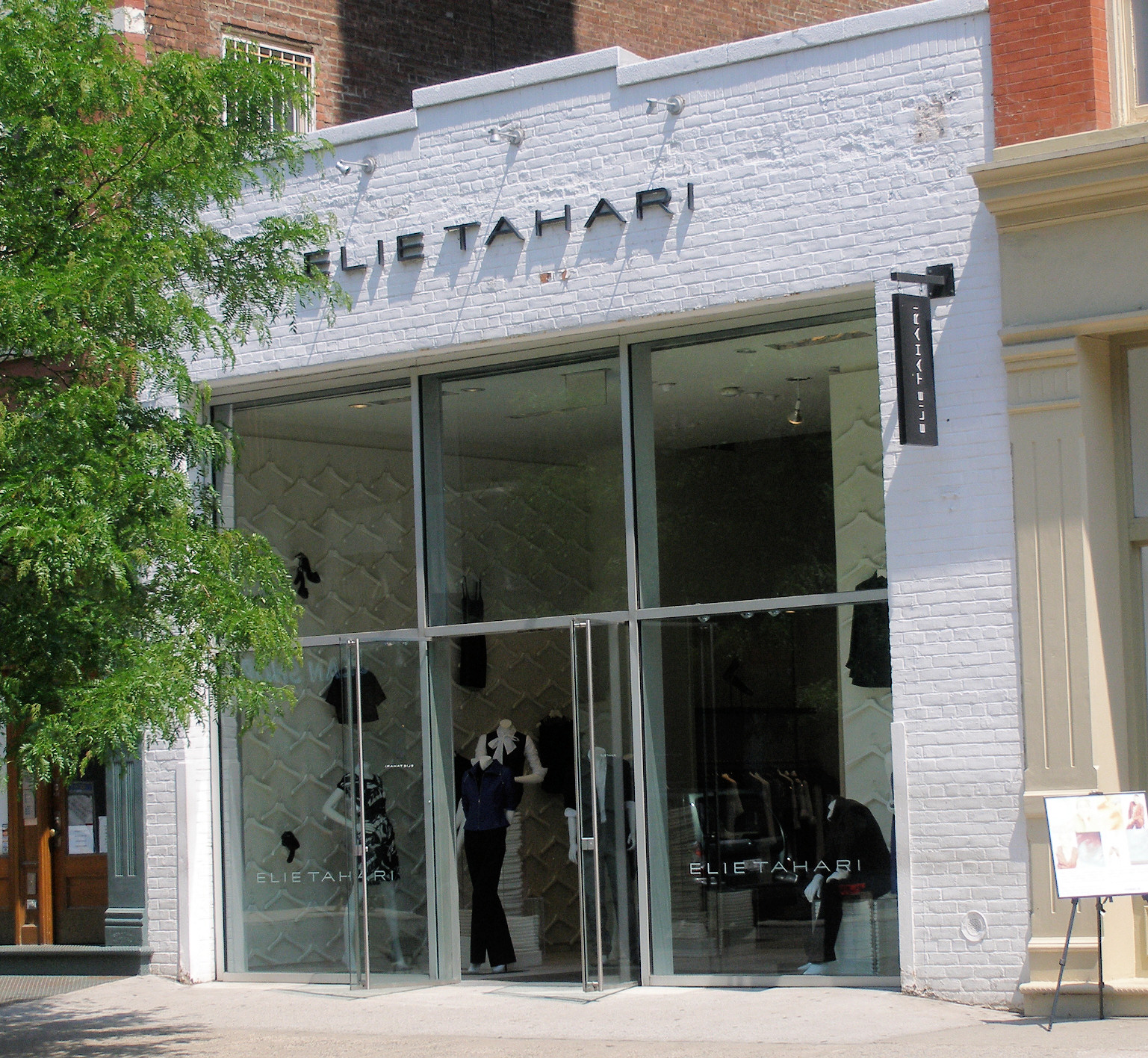 Elie Tahari's boutique in the SoHo neighborhood of Manhattan, New York City, New York.